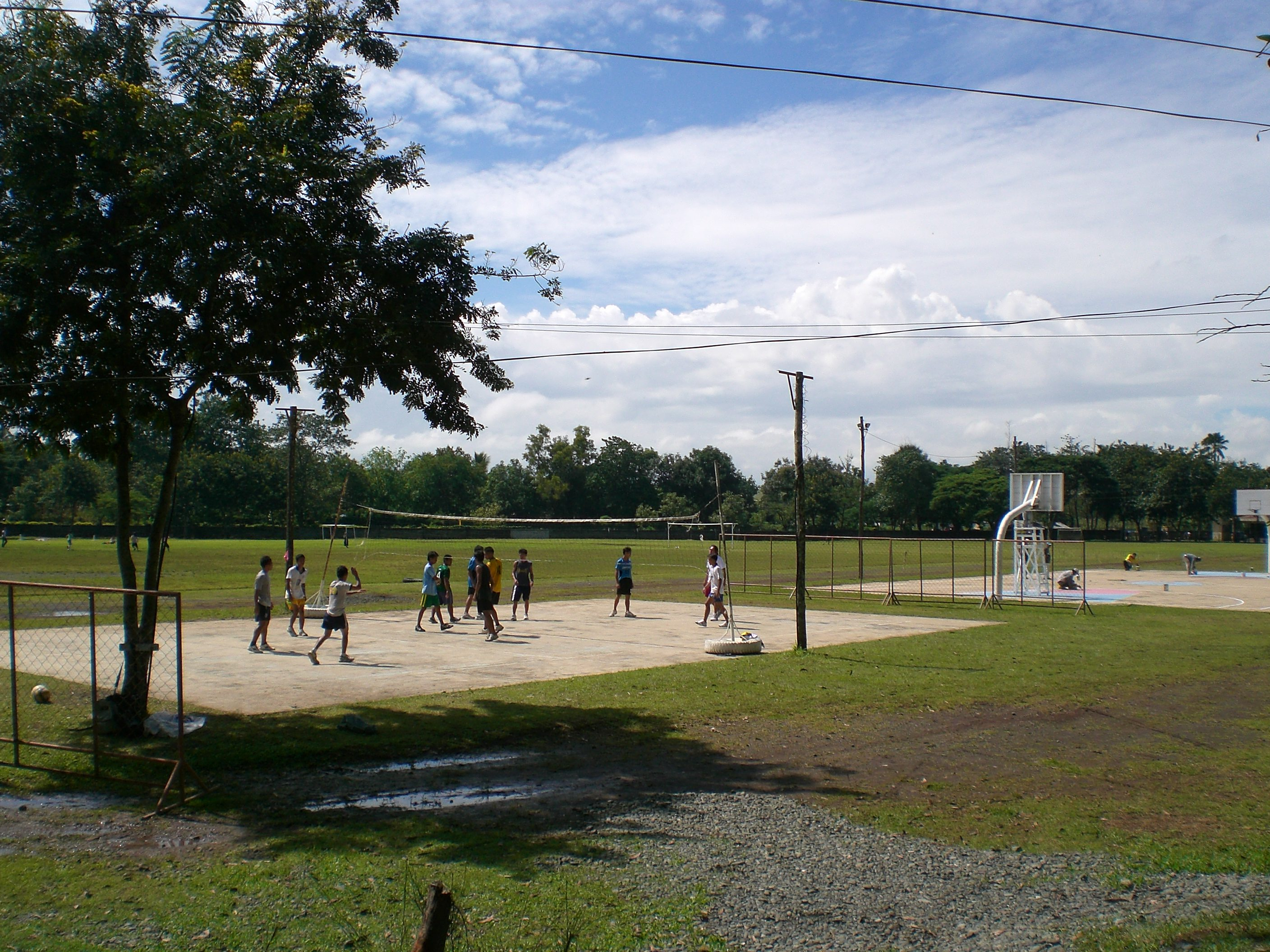 CMU Athletic facilities